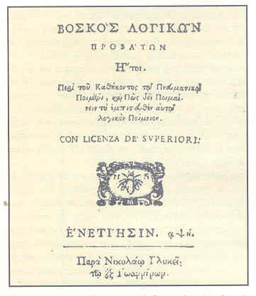 Cover of book Methodious Anthracite (1708)Shepherd Logical sheep